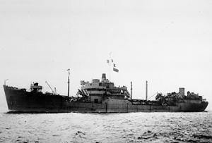 RFA WAVE KING underway